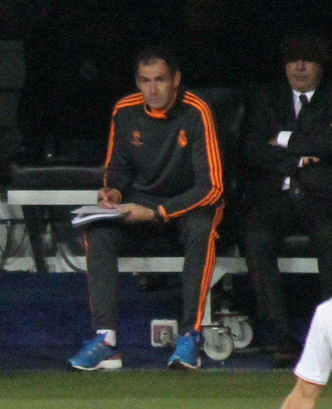 Paul Clement at Real Madrid vs Juventus, 24 October 2013 Champions League